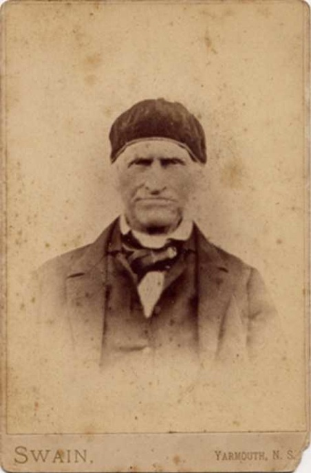 Simon d’Entremont